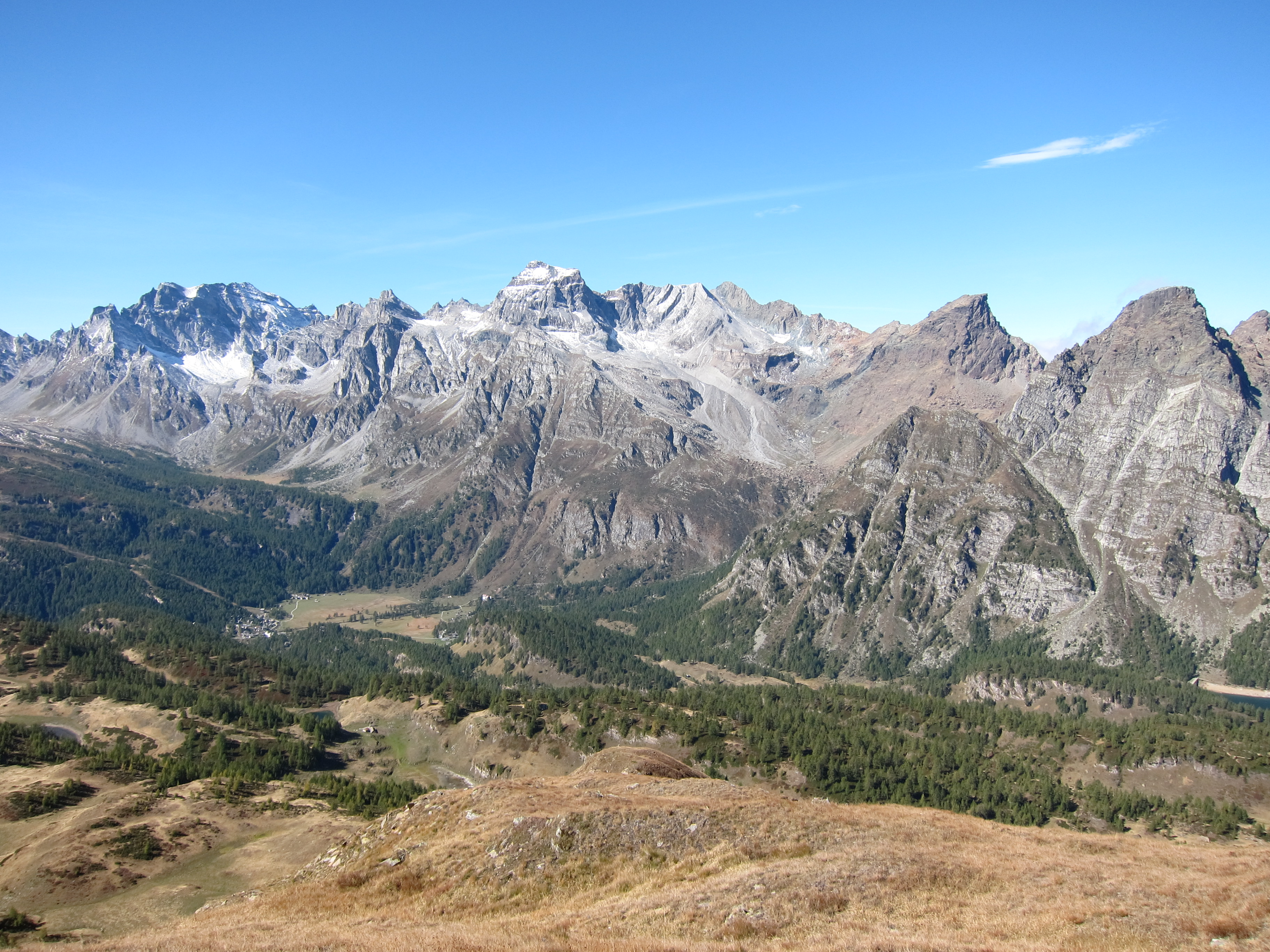 Panoramic view of Valle Devero valley as seen from Monte Corbernas. The mountain peaks from the left to the right are: Helsenhorn, Pizzo Cornera, Monte Cervandone, Punta della Rossa/Rothorn, Pizzo Crampiolo sud. In the bottom of the valley you can see the village of Alpe Devero on the right, Crampiolo village in the middle and and the Devero Lake on the left. The valley is in Baceno municipality, VB, redion Piedmont, in Italy. Taken on the 3rd of October 2018. 2018-03-2018